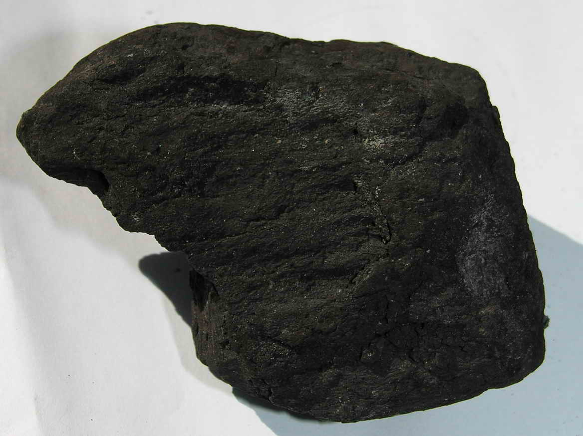 Lignite